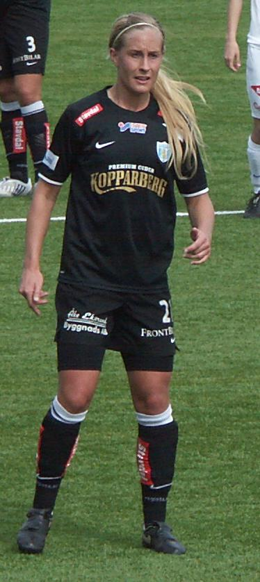 Jenny Hallstenson, midfielder in Kopparbergs/Göteborg FC 2009.